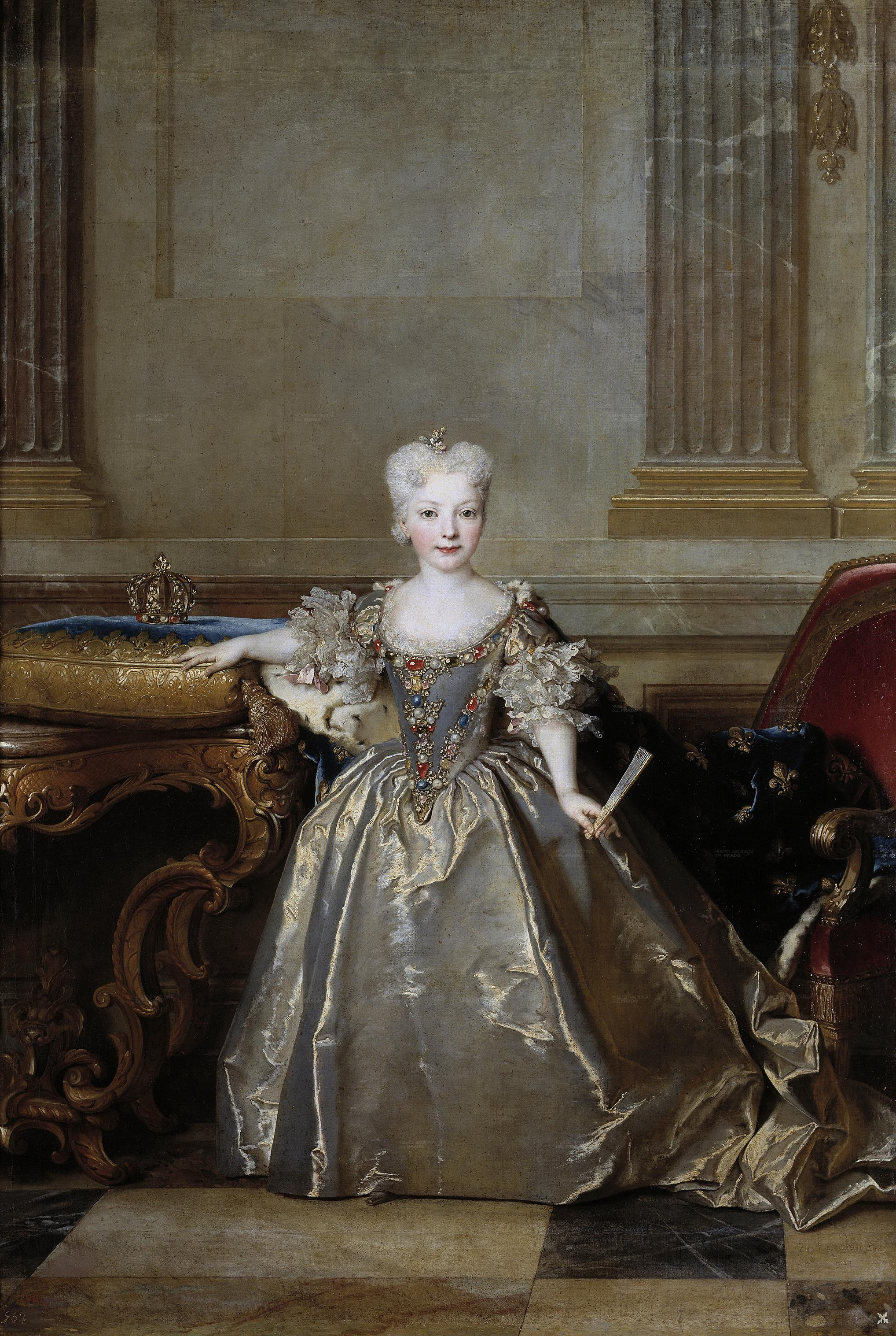 Infanta Mariana Victoria of Spain, Queen Consort of Portugal and the Algarves (Portuguese: Mariana Vitória) (31 March 1718 – 15 January 1781) was Queen Consort of Portugal and the Algarves due to her marriage to Joseph I. She also acted as Queen Regent of Portugal. She has descendants ranging from the present King of Spain, Grand Duke of Luxembourg, Duke of Parma (the Parma line was founded by her second surviving brother Philip) and French Pretenders, the Count of Paris.